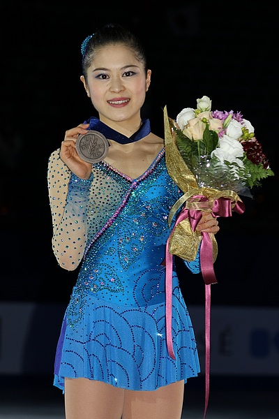 Photos – Four Continents Championships 2018 – Ladies (Medalists)